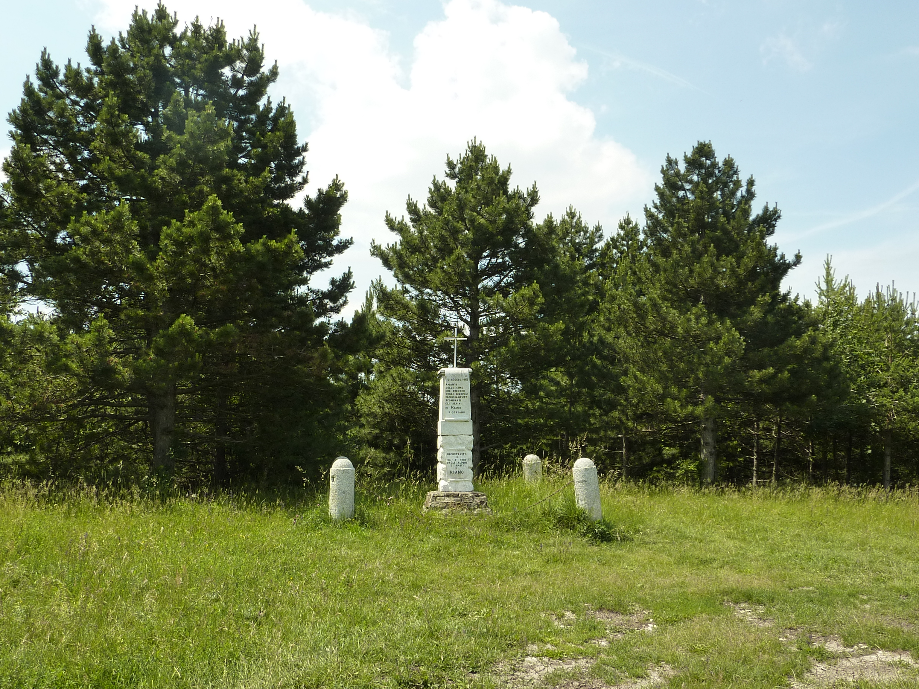 Monument on top of monte Sporno (Parma, Italy).